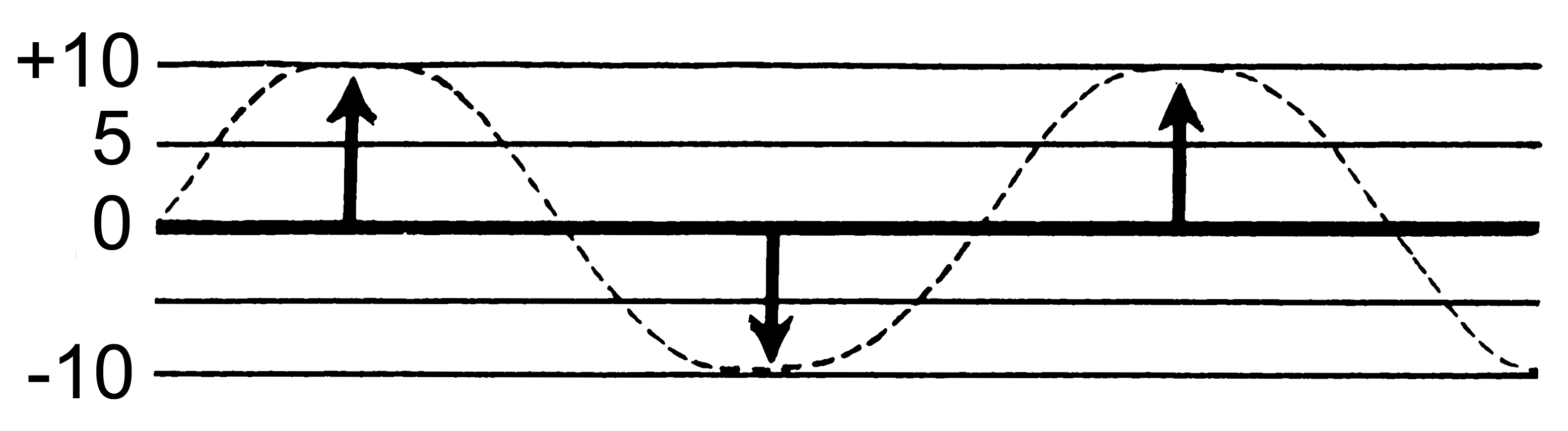 Line art drawing of amplitude